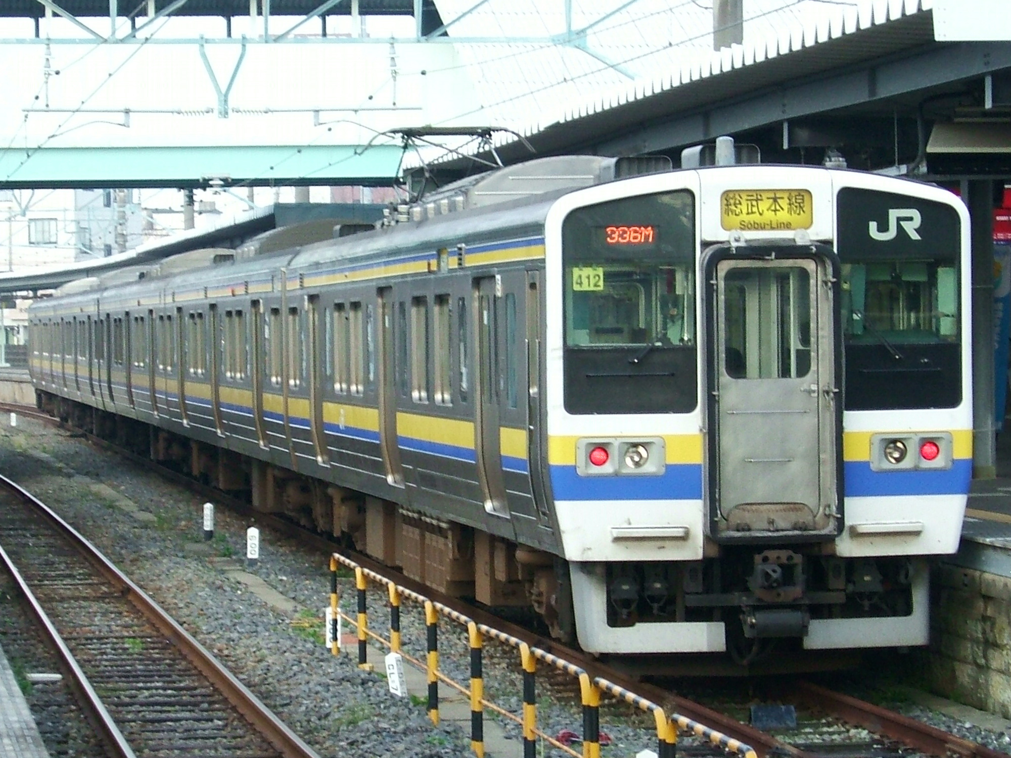 JR East series 211 for Chiba branch